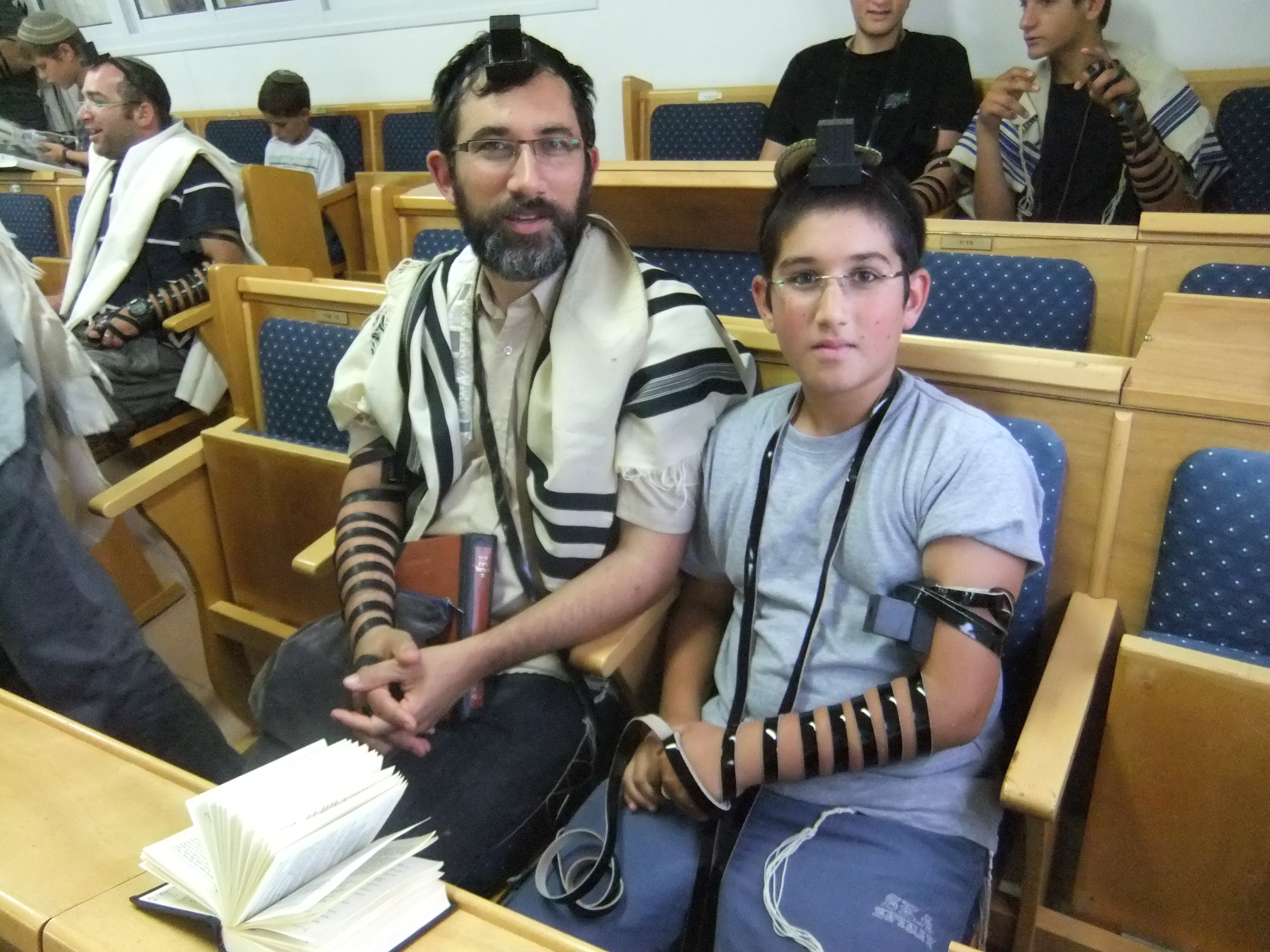 Father and son wearing Tefilin. Father on the left is left handed, therefore his Tefilin are on his right hand. The son on the right is right handed, therefore his Tefilin are on his left hand.